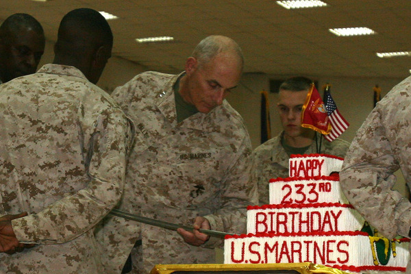 2008 Marine Corps Birthday - MultiNational Force - Iraq: Maj. Gen. John F. Kelly, commanding general, Multi National Force-West, cuts the Marine Corps Birthday Cake during the cake cutting ceremony at the base chapel at Camp Fallujah, Iraq on November 10, 2008 — celebrating the 233rd birthday of the U.S. Marine Corps.